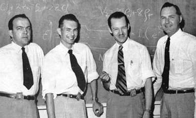 AdcockJonesJacksonThornhil